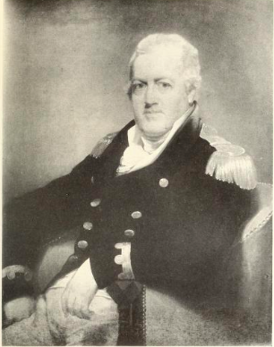 Captain John Nicholson Inglefield by Robert Field